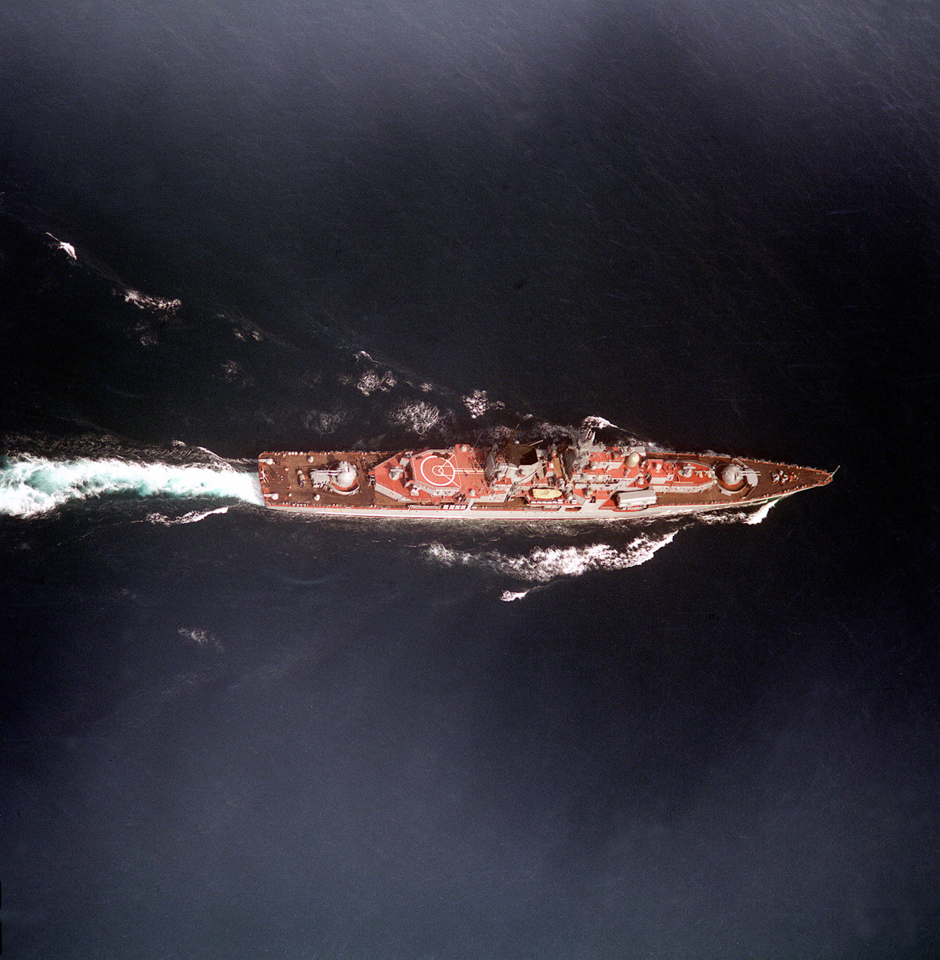 An overhead view of the Soviet Project 956 "Sarych"(Sovremenny class) destroyer Stoykiy (645) underway.